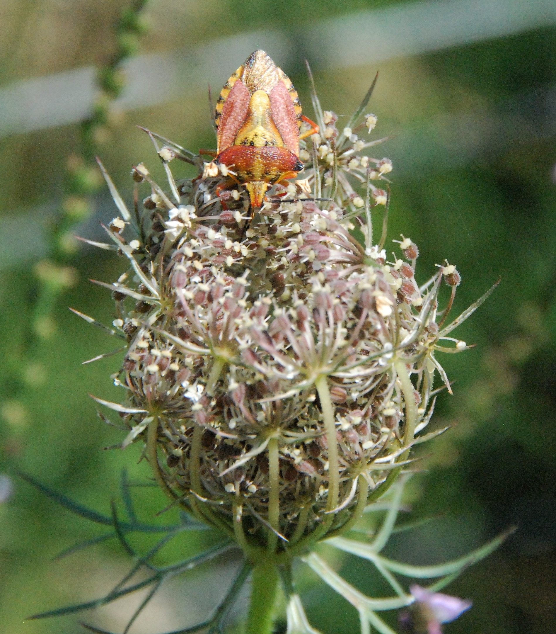 Orange Bedbug on a wild carrot in Irurita, Nafarroa, August 2019